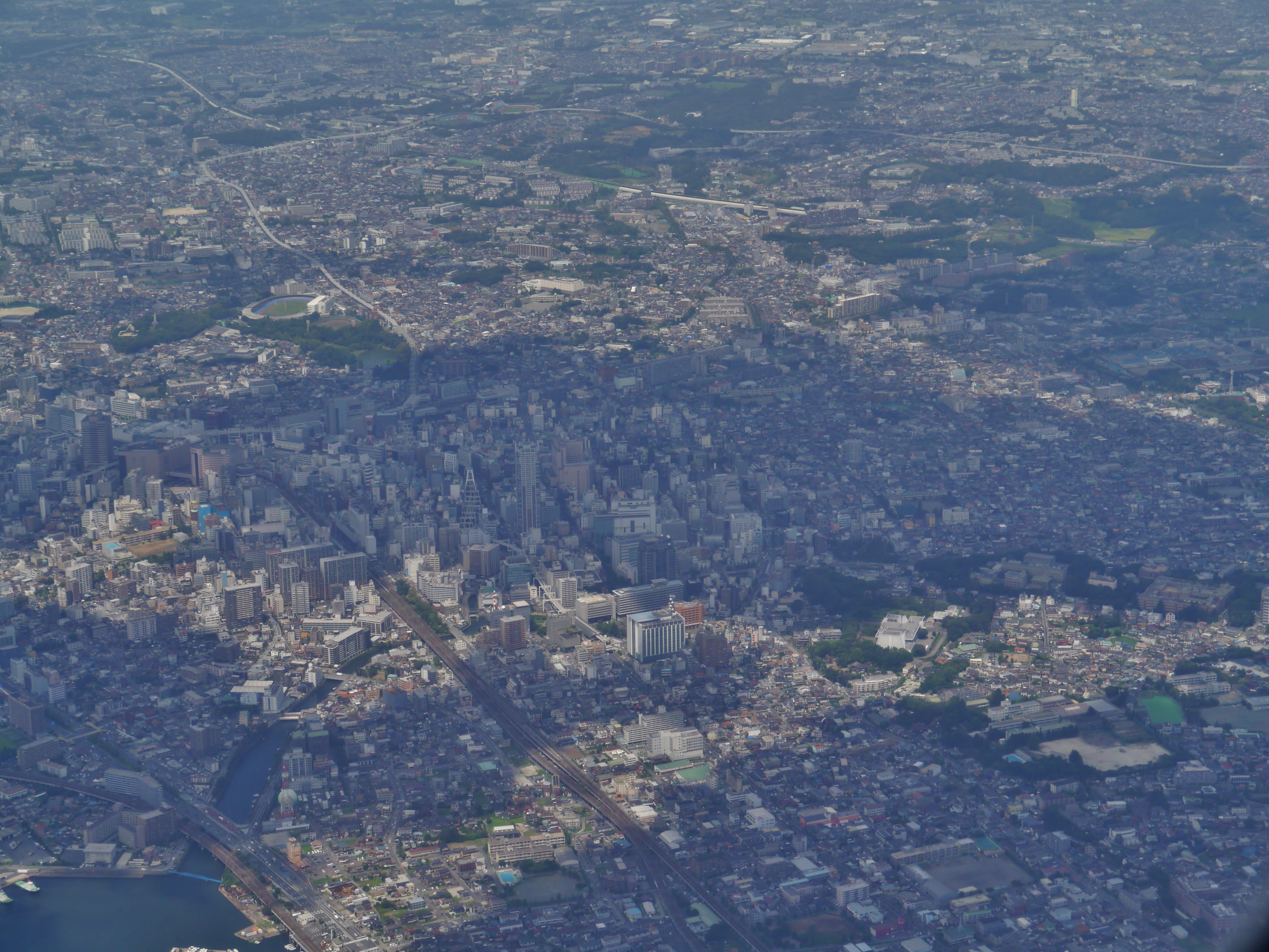 View from the Plane to Tokyo, Region of Kanto, Japan